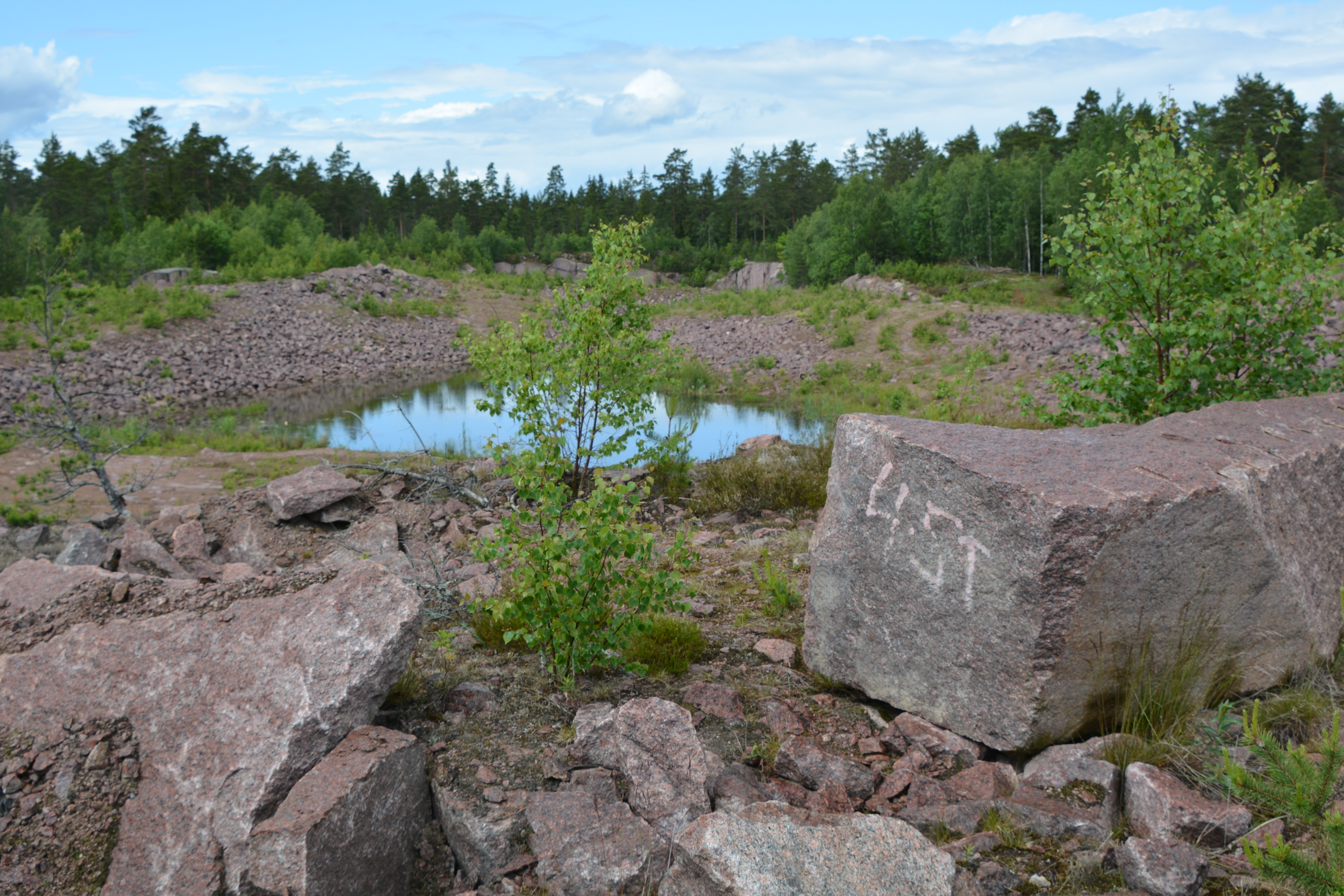 Kråkemåla quarry close to Lake Götemar